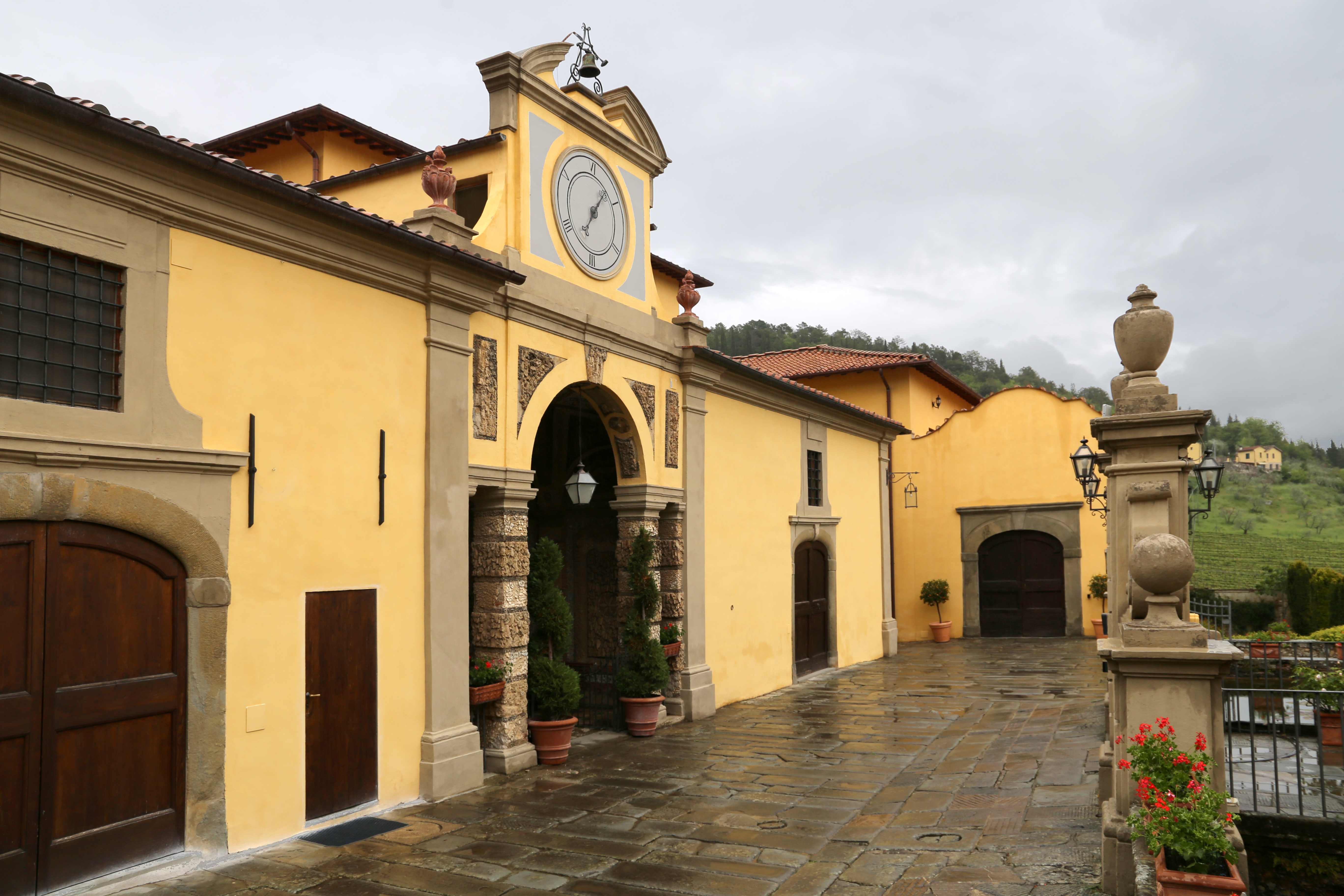 Villa Martelli di Gricigliano